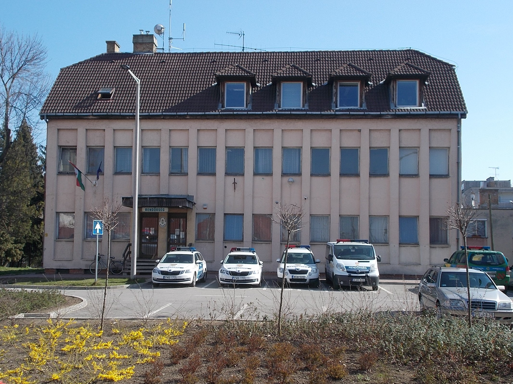 Kisbér Police Headquarters. - 4 Batthyány tér, Kisbér, Komárom-Esztergom County, Hungary.